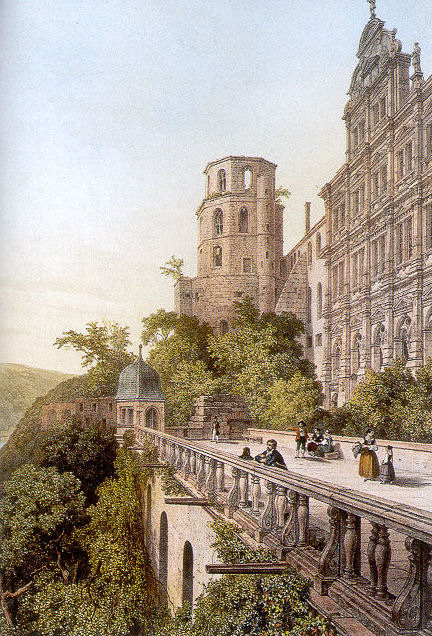 historic views of Heidelberg, Germany